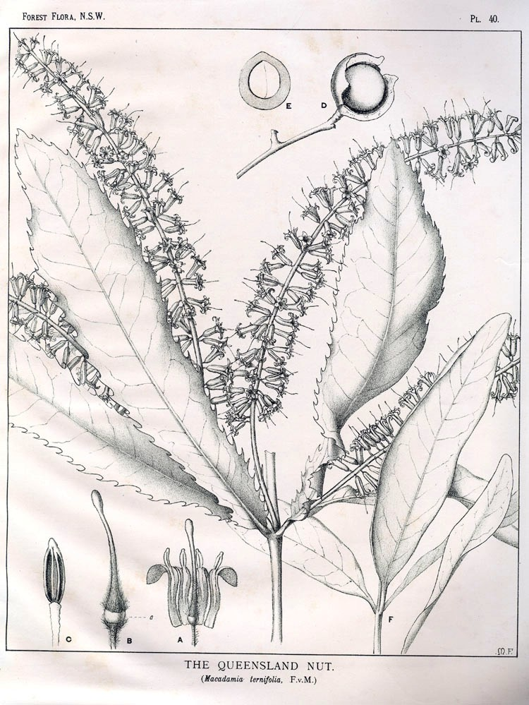 Queensland Nut, Macadamia ternifolia F. Muell., Plate 40 from Forest Flora of New South Wales by Joseph Henry Maiden (1859–1925)